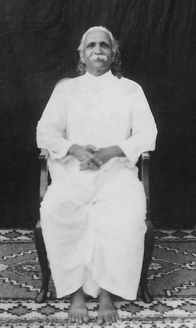 Swami Kuvalayananda sitting